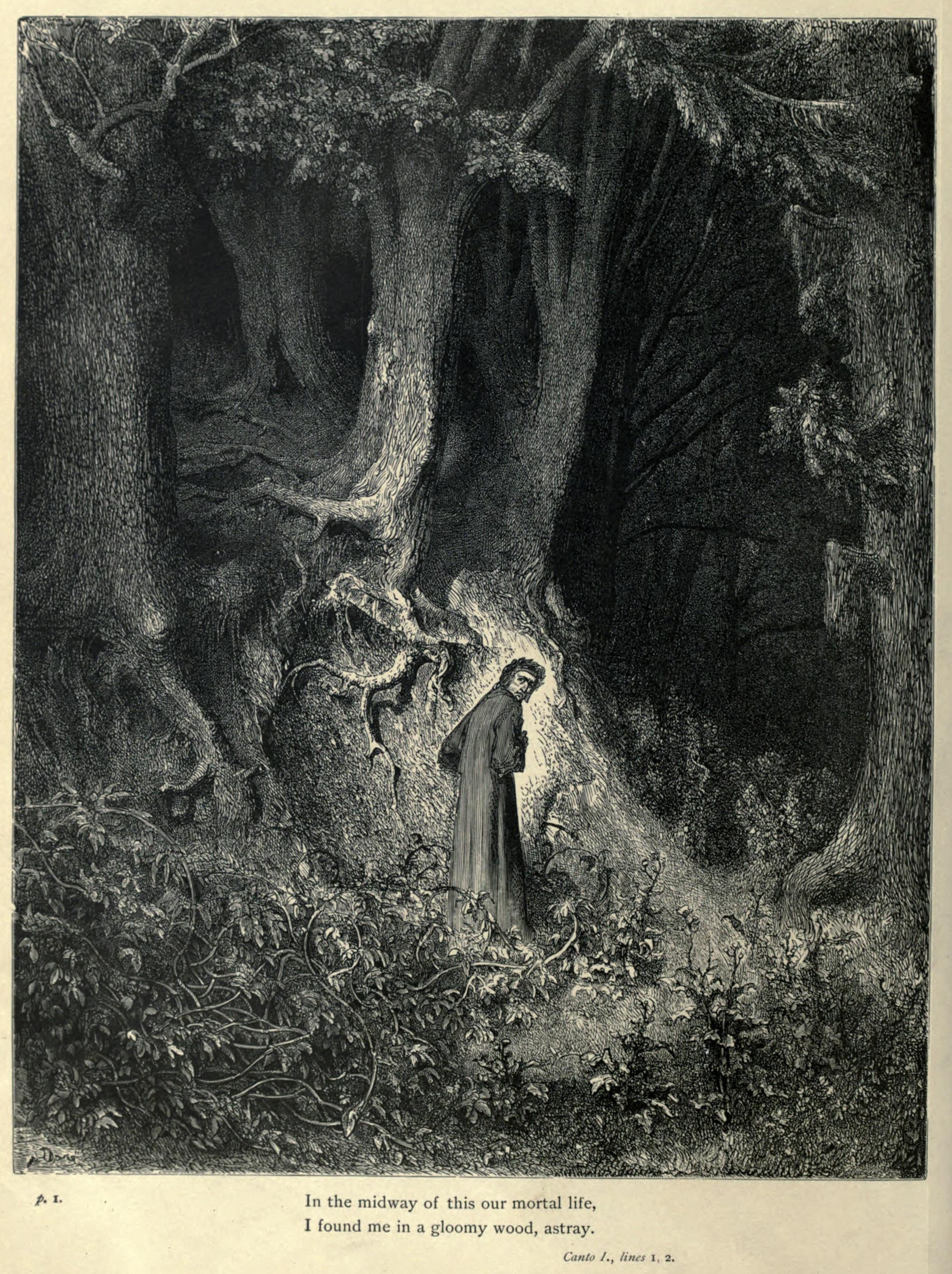 Dante finds himself lost in a gloomy wood, from Canto 1 of Divine Comedy, illustrated by Paul Gustave Doré (1832-1883). The image is from an 1861 edition of Dante's Inferno, the first part of the poem. The caption reads "'In the midway of this our mortal life, I found me in a gloomy wood, astray' Canto 1 lines 1,2." Doré's edition can be read online here (Project Gutenberg) and here .